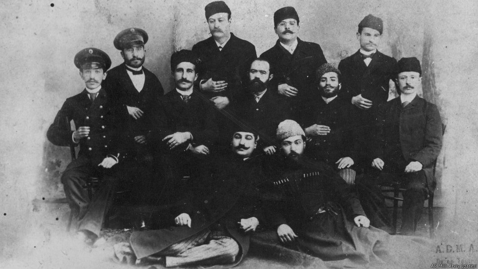 Theater troupe of Habib bey Mahmudbeyov